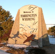 Torrington, Wyoming, has this sign at its western entrance. I took this photo on 2006-02-22.